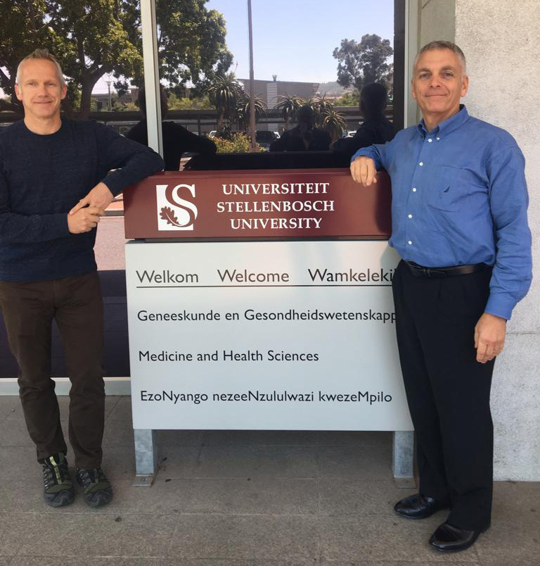 Dr. Lee Wallis ( left) professor and head of the Division of Emergency Medicine at the University of Cape Town and Anthony E. Pusateri, Ph.D., director of research chief science officer at the U.S. Army Institute of Surgical Research at Fort Sam Houston, Texas, pose during a conference at South Africa’s Stellenbosch University in November, 2018. South African and Army researchers are teaming up to develop a synthetic blood product that could be used in treating trauma cases. A meeting was held Nov. 27 -30, 2018 to work on the project at Stellenbosch University. (U.S. Army photo by Major Al Phillips)